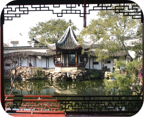 landscape in “Fishernet Garden"